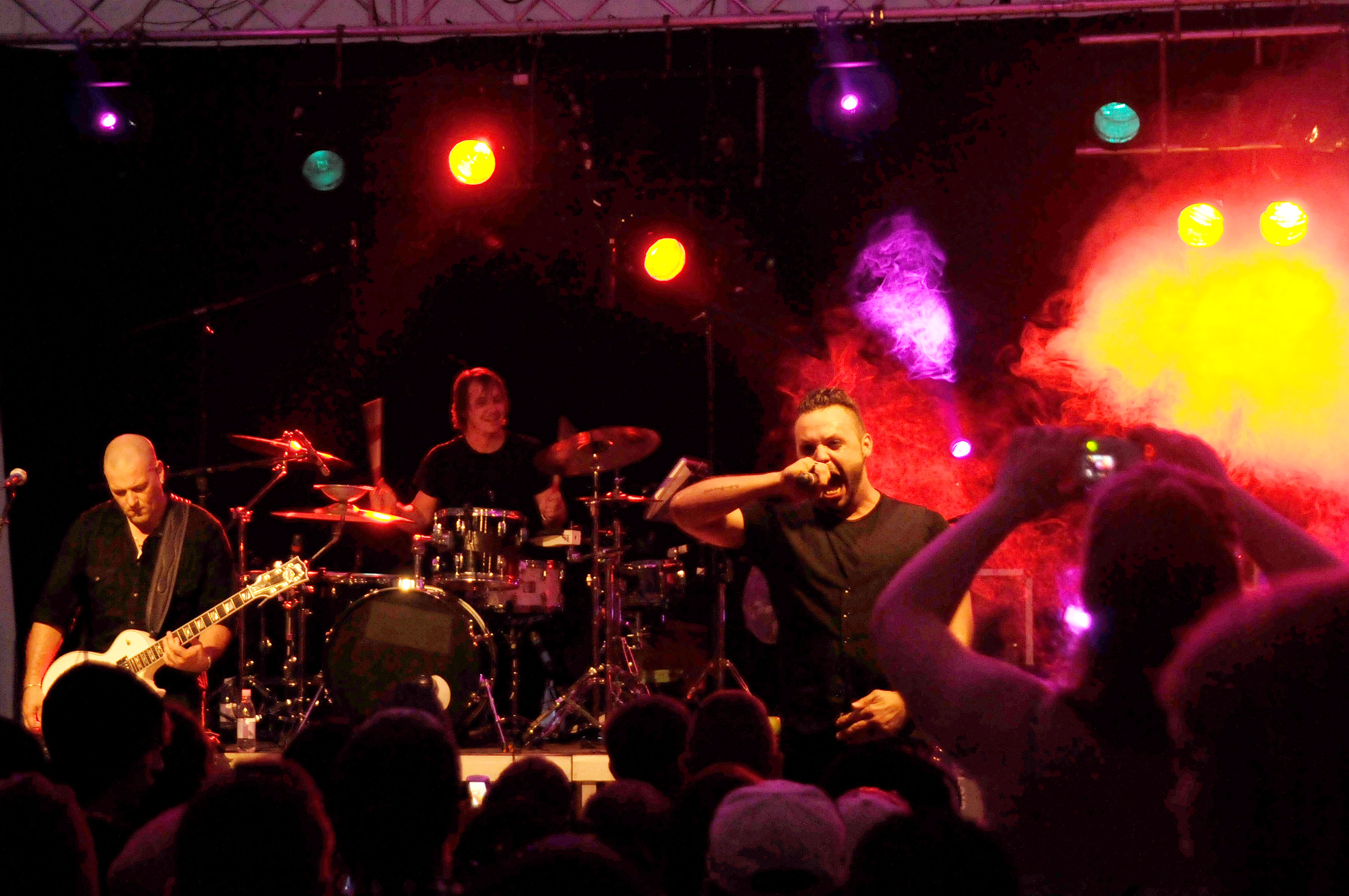 Blue October, a rock band, performs a free concert for fans at the Rockin’ Fourth of July celebration, July 4, 2009, Kapaun Air Station, Germany.